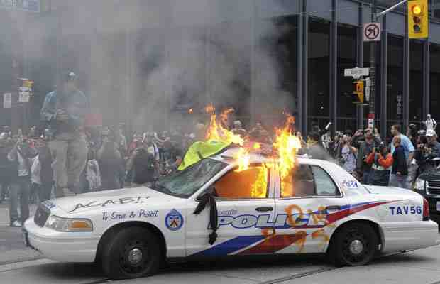 G20 RIOTS SAT 26 JUNE 2010 - Burning police cruiser at the intersection of Bay and King Streets in the heart of Toronto's Financial District